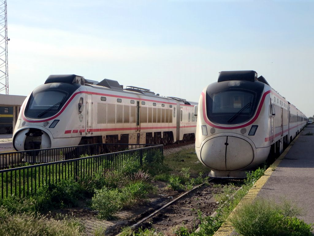 The Chinese government supplied these trains to service the route between Baghdad and Basra, Iraq.